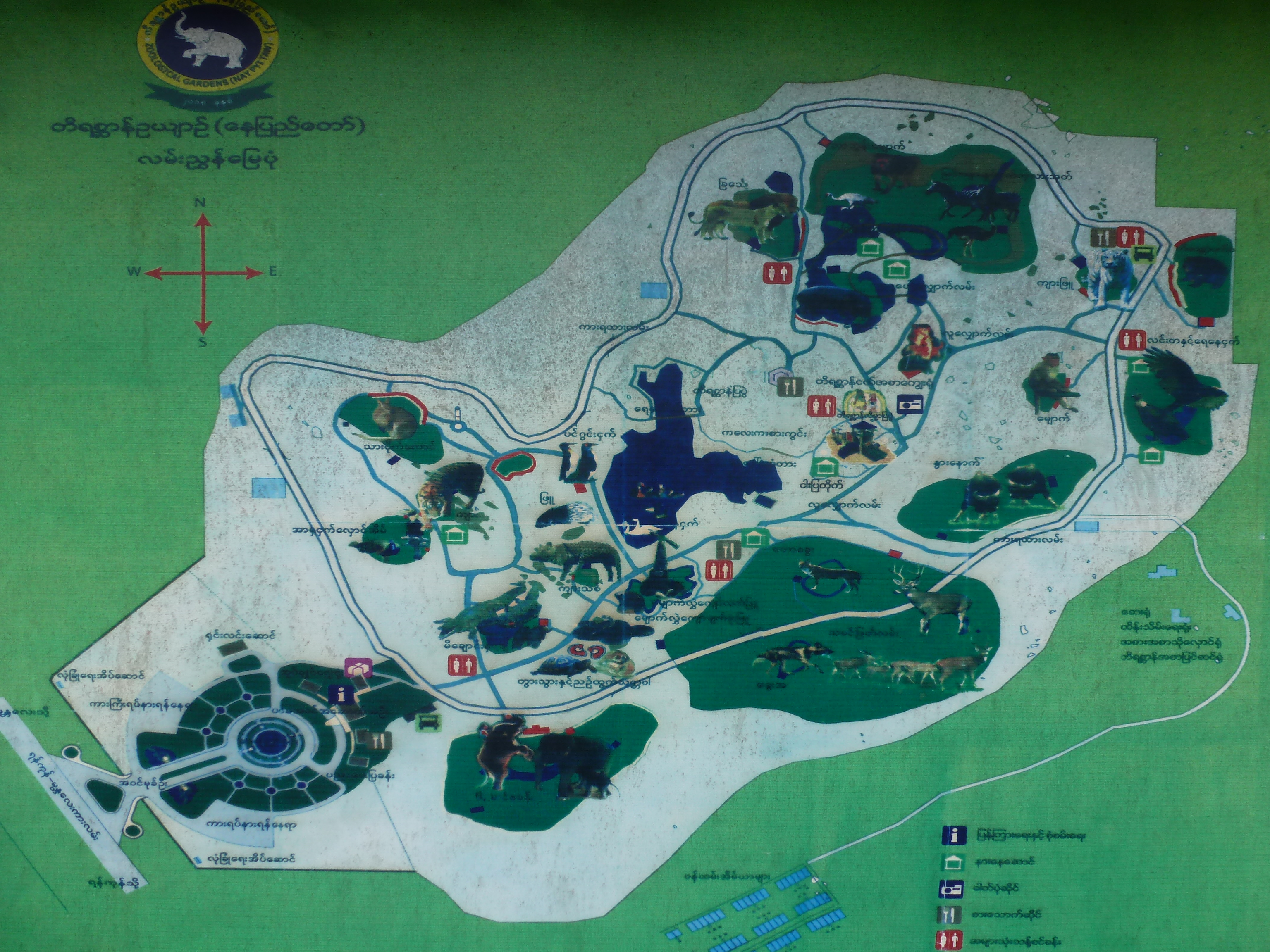 Map of Naypyidaw zoo